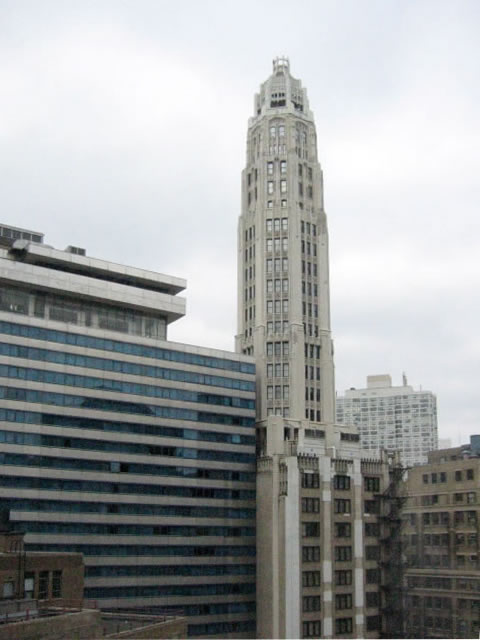 Mather Tower's new crown, viewed from the Carbon & Carbide Bldgimg_0371